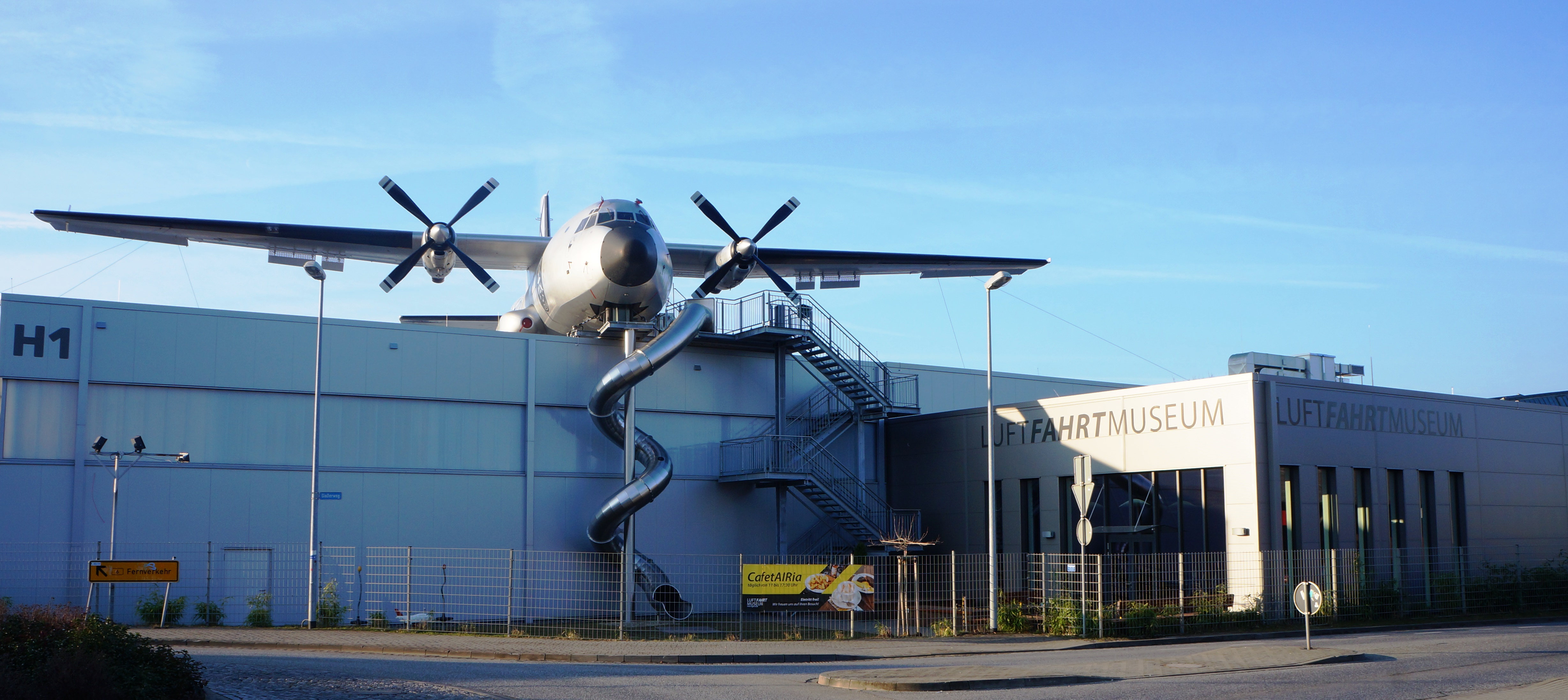 Aircraft Transall C-160 on the roof of Luftfahrtmuseum Wernigerode.